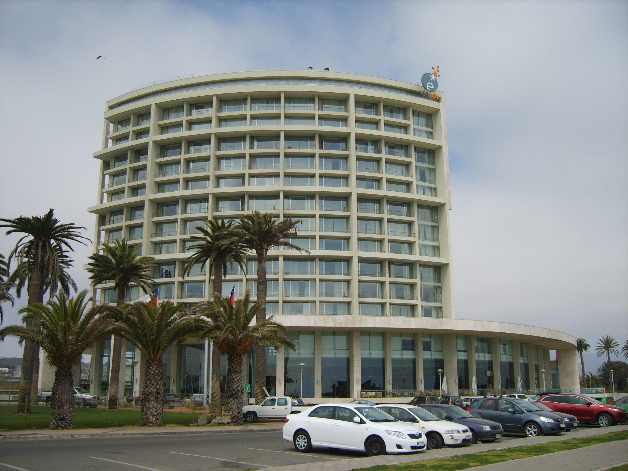 View of Enjoy Coquimbo casino from Costanera Avenue.